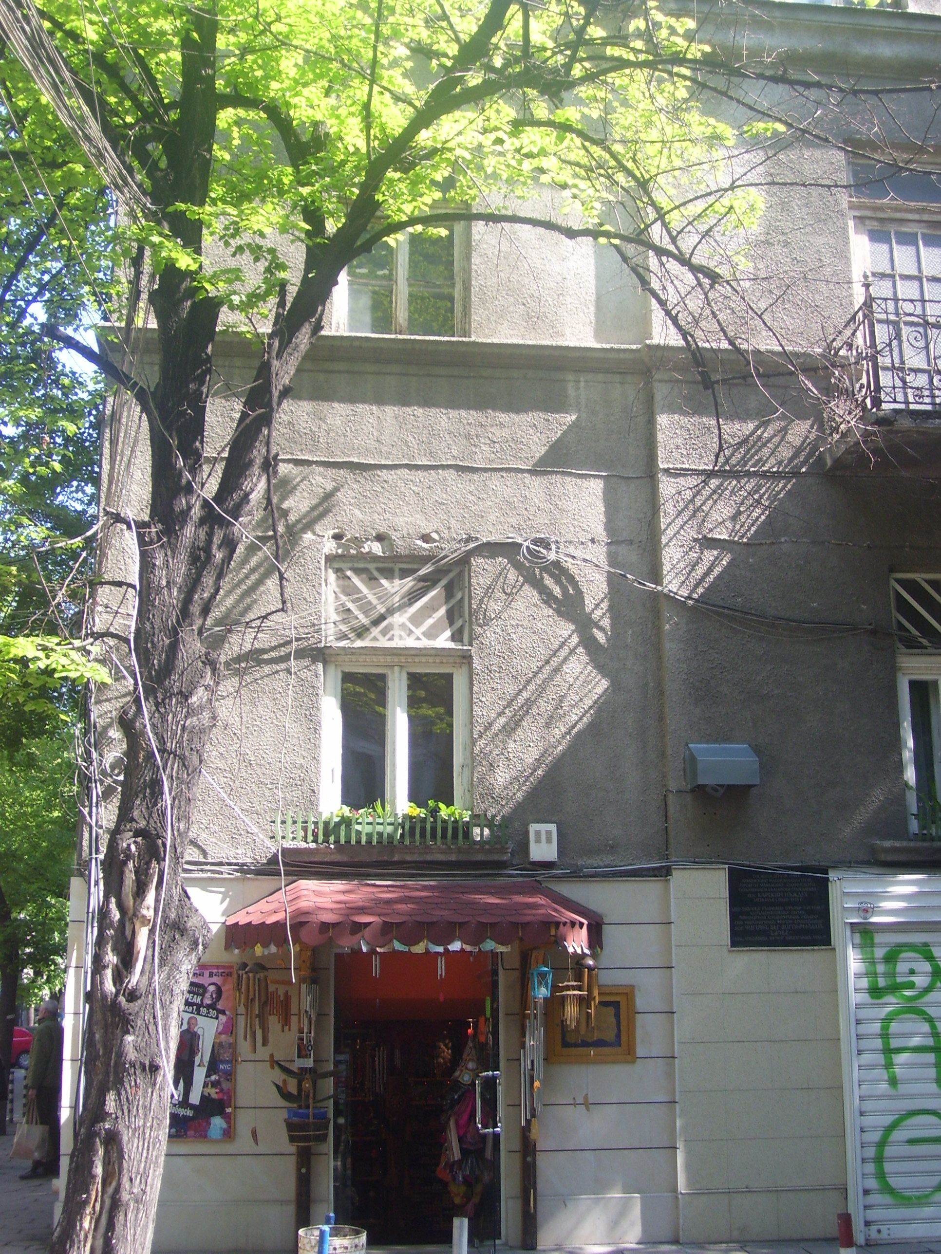 The house of Garegin Njdeh in Sofia, Bulgaria.